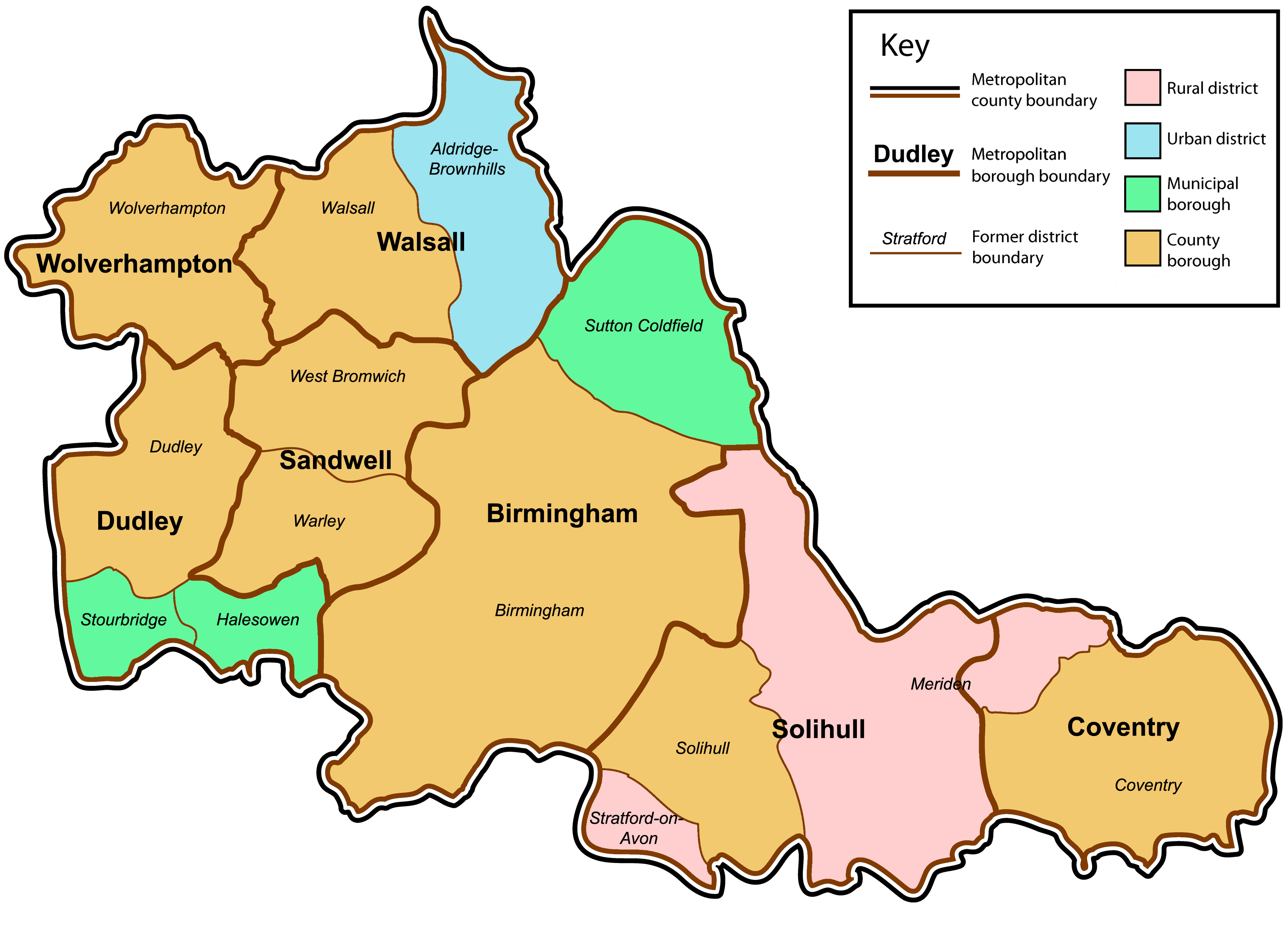 A map of the metropolitan county of West Midlands, England. This map shows former and modern district boundaries. For an explanation of the colours, see the key.